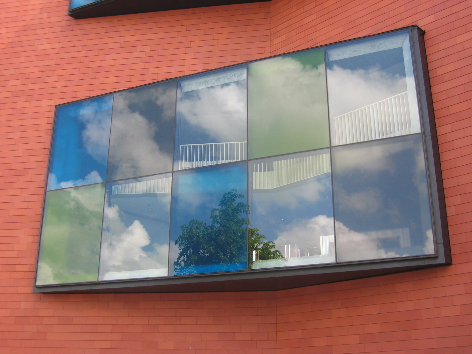 Reflecting fassade at the "Concertgebouw" (Concert Hall), Brugge, Belgium Foto: Rolf Thum, May 2004